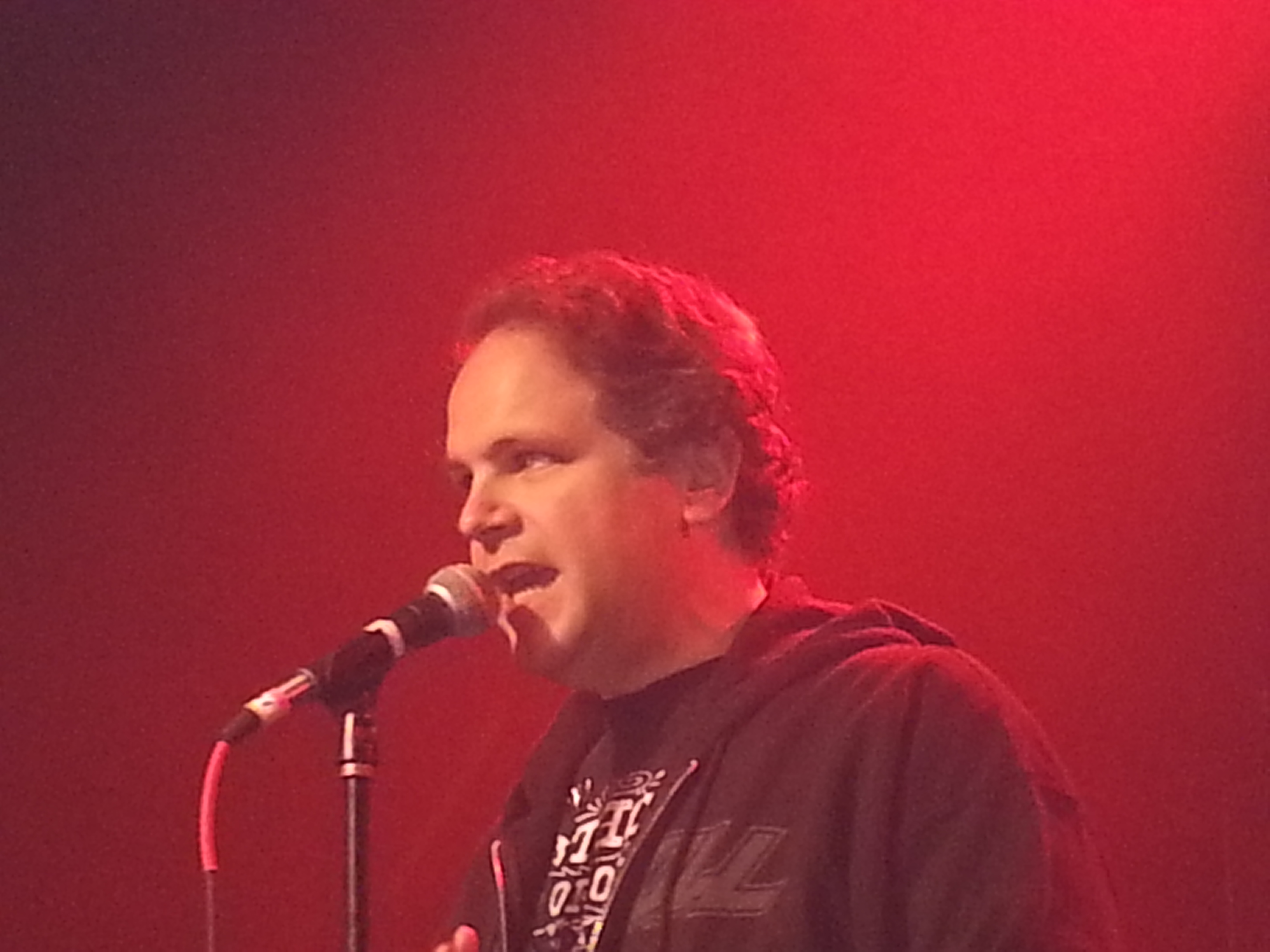 Eddie Trunk